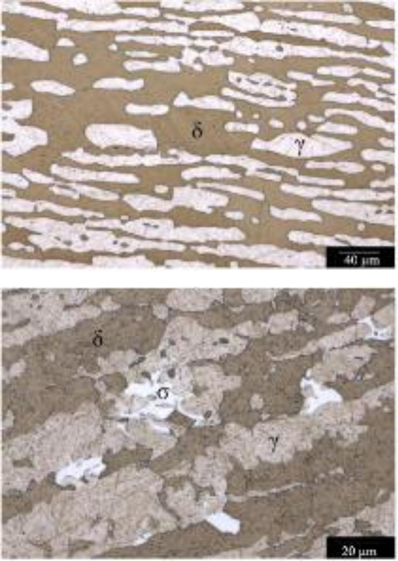 The upper picture shows a microstructure of UNS S82441 lean stainless steel as received. The lower picture shows a microstructure of the same material aged at 850 degree C for 300 minutes. A sigma phase exists in the lower.